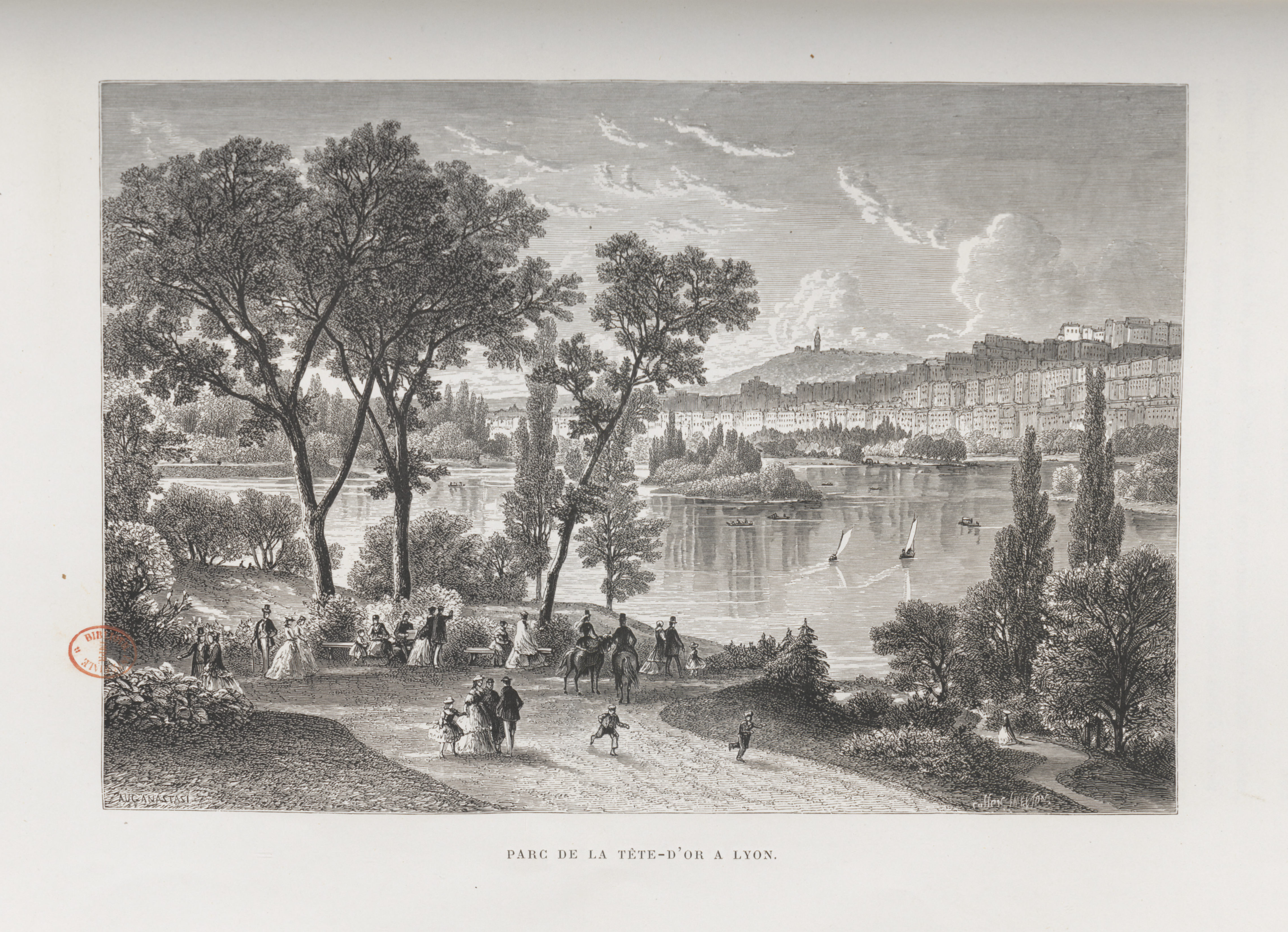 Parc de la Tête d'Or ("Park of the Golden Head") in Lyon. Engraving by Auguste Paul Charles Anastasi from page 368 of "Les jardins : histoire et description" / Arthur Mangin ; dessins par Anastasi, Daubigny, V. Foulquier... [et al.] . Tours : A. Mame et fils, 1867.